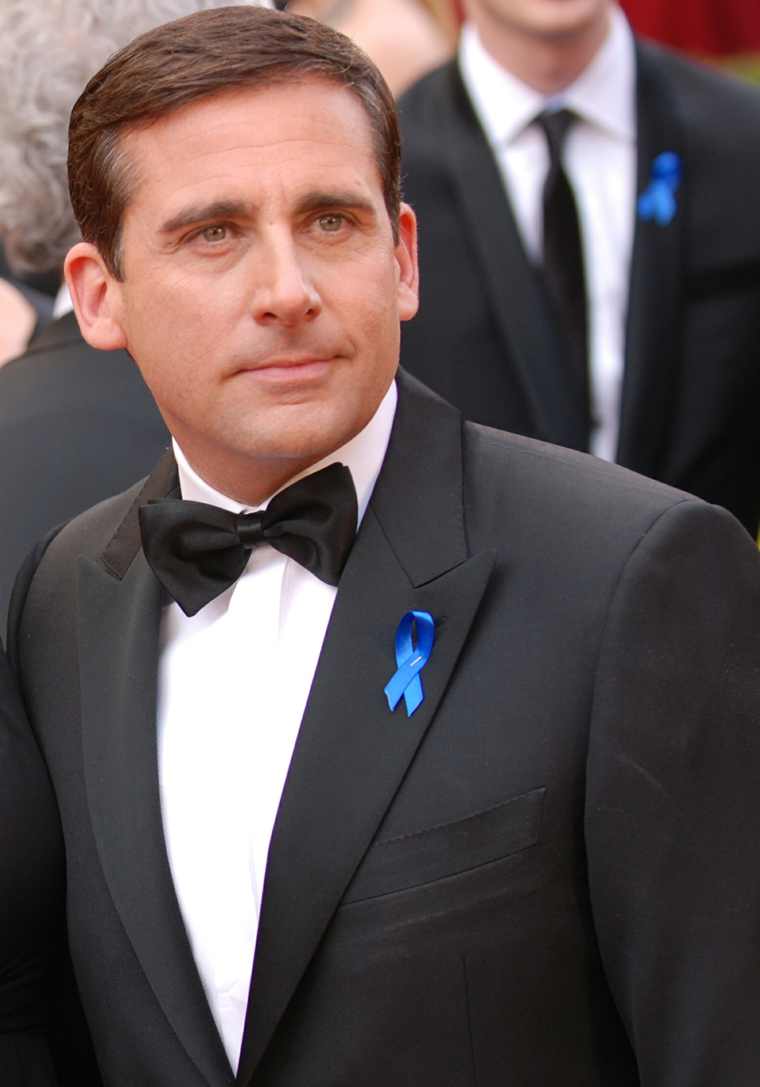 Steve Carell pauses for a moment to take in the grandeur of the 82nd Academy Awards, March 7, in Hollywood, Calif.